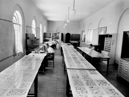 Scholars examining the Dead Sea Scroll fragments.